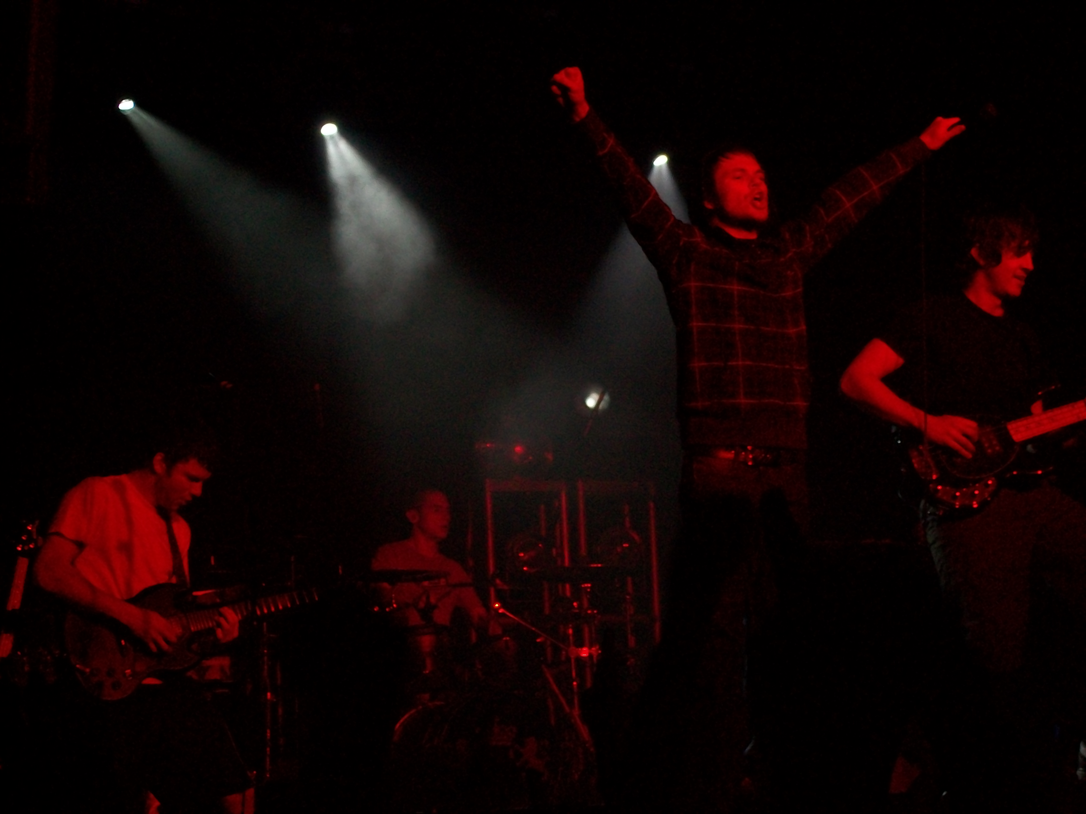 Enter Shikari live at Heaven Nightclub, London on 15th June 2009